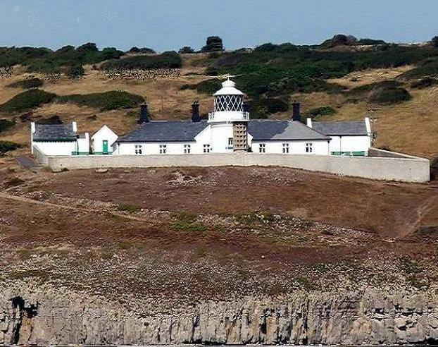 Swanage Lighthouse seen from the sea